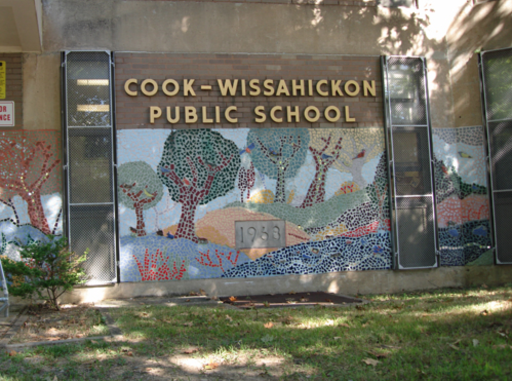 Decorative mosaic tiles on exterior of Cook-Wissahickon Public School Building located at the intersection of Salaignac Street and Righter Street.